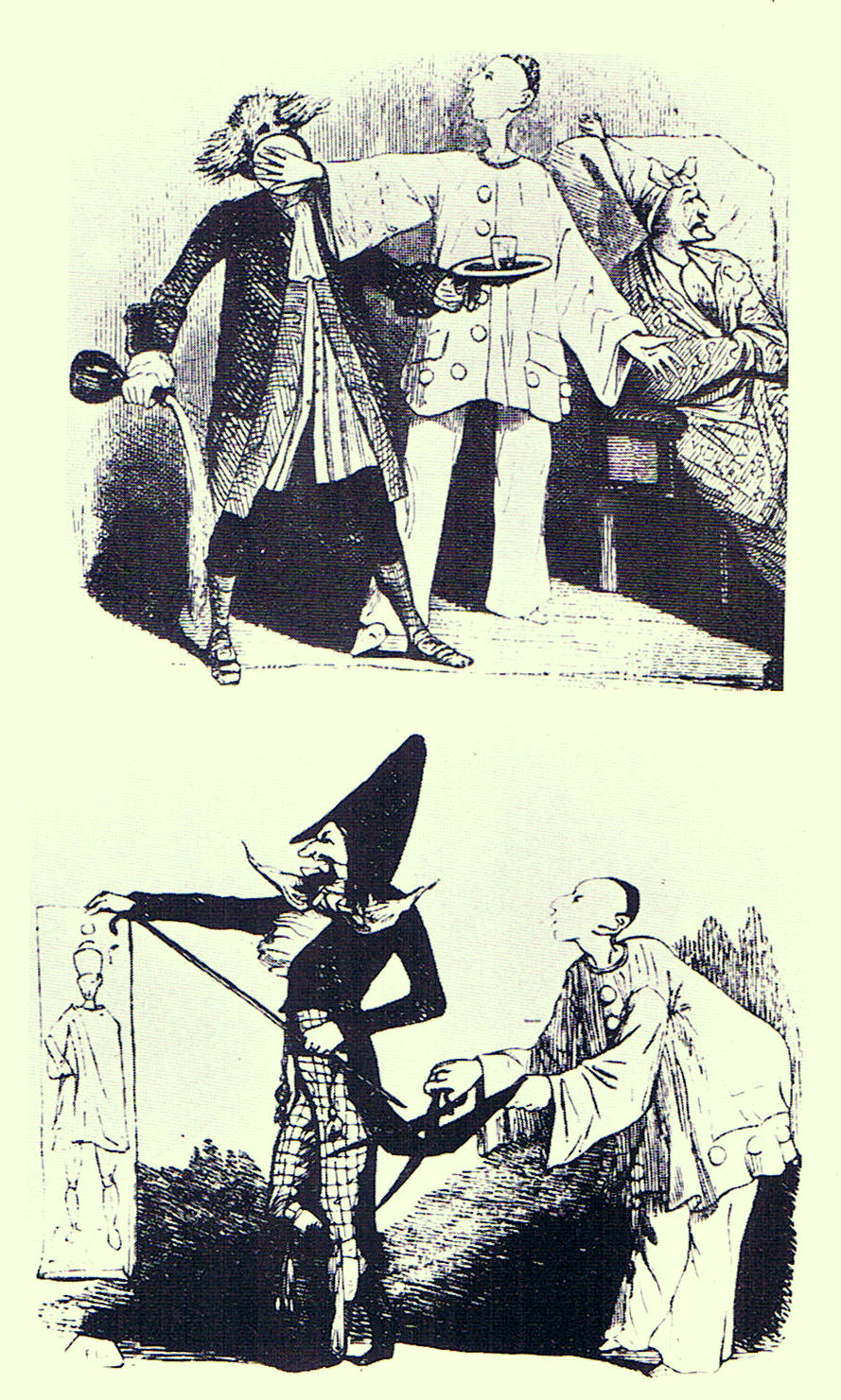 Two caricatures by Eustache Lorsay of J.-G. Deburau, French mime.